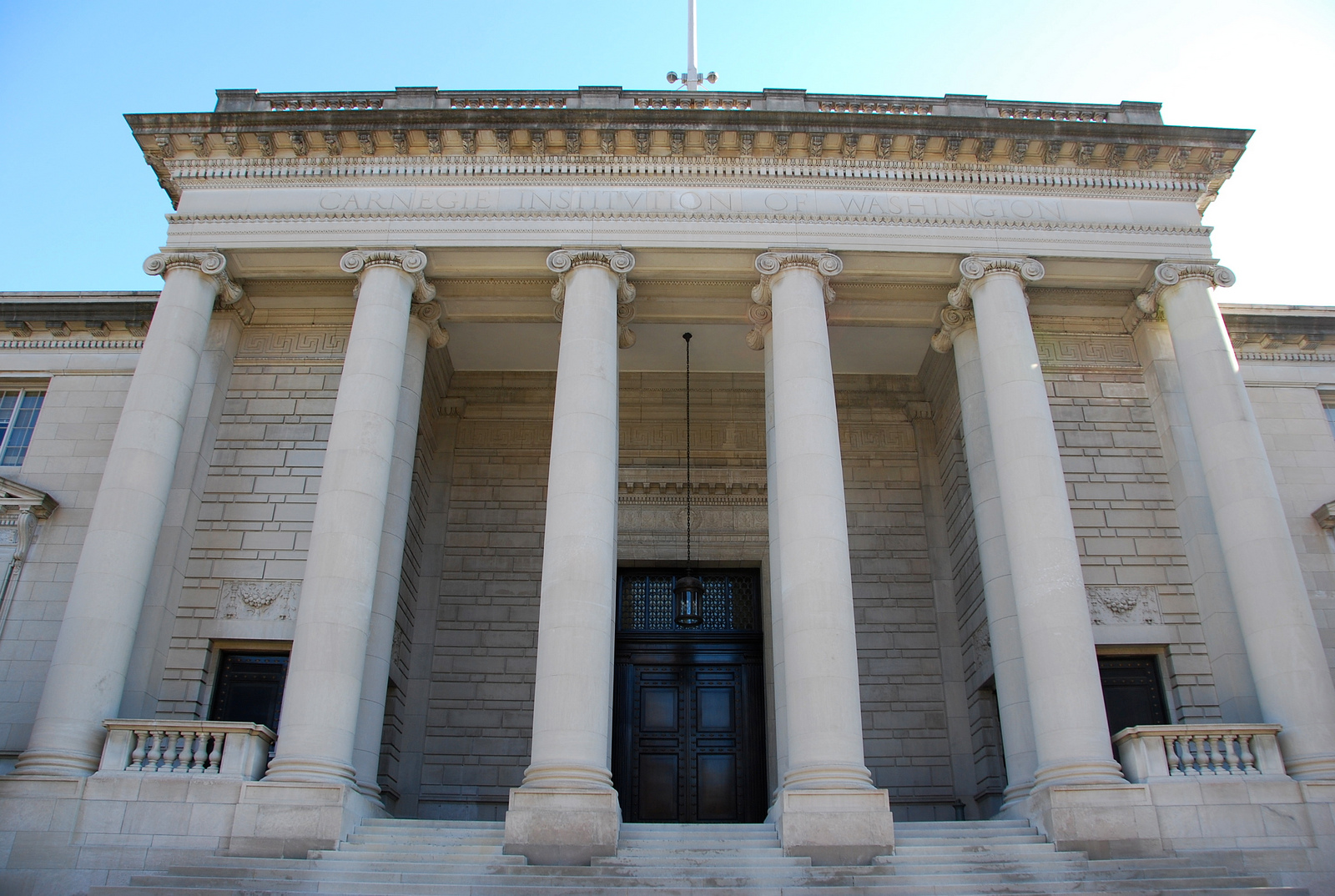 Administration Building, Carnegie Institute of Washington